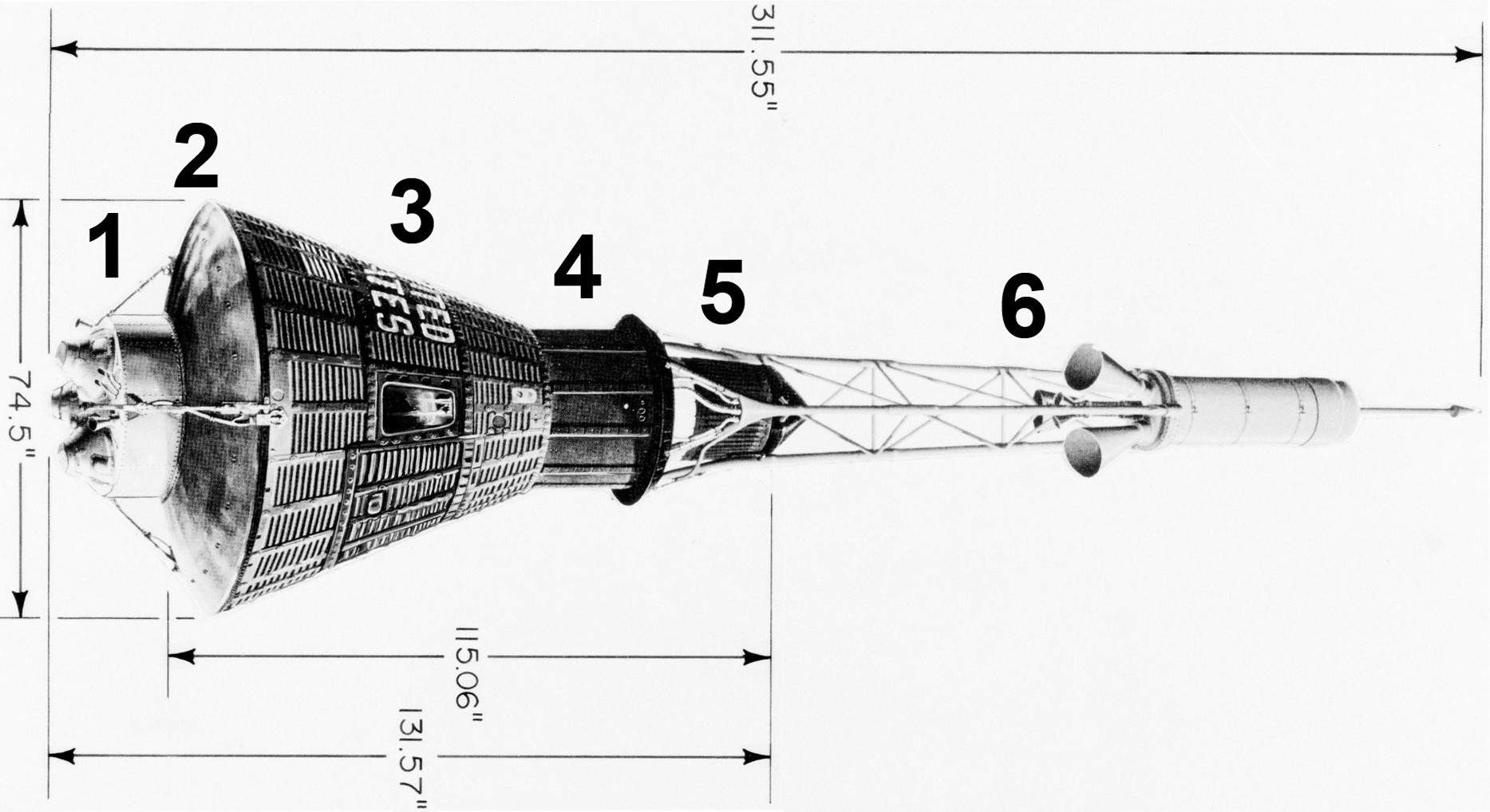 Mercury spacecraft with measurements